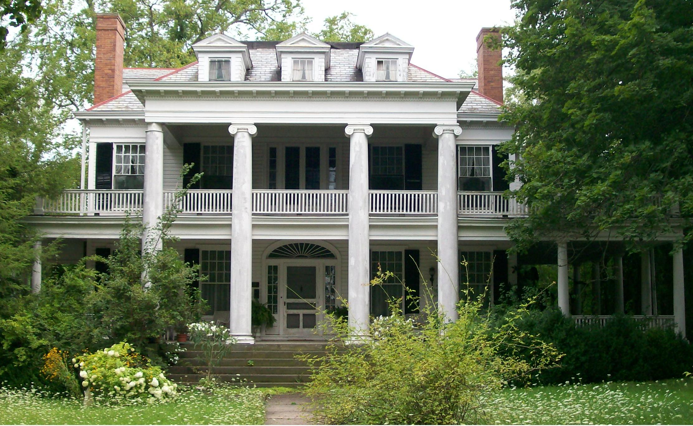 Front of the William C. Mooney House, located at 122 N. Paul Street in Woodsfield, Ohio, United States. Built in 1880, it is listed on the National Register of Historic Places.